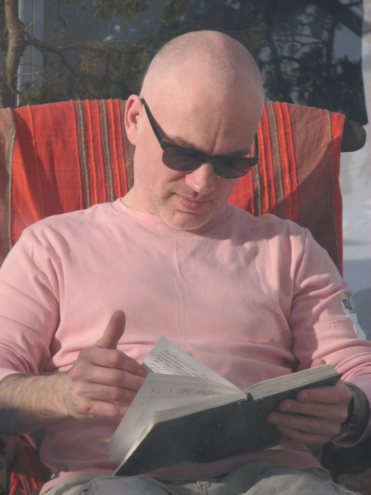 Laurentsius is Estonian painter